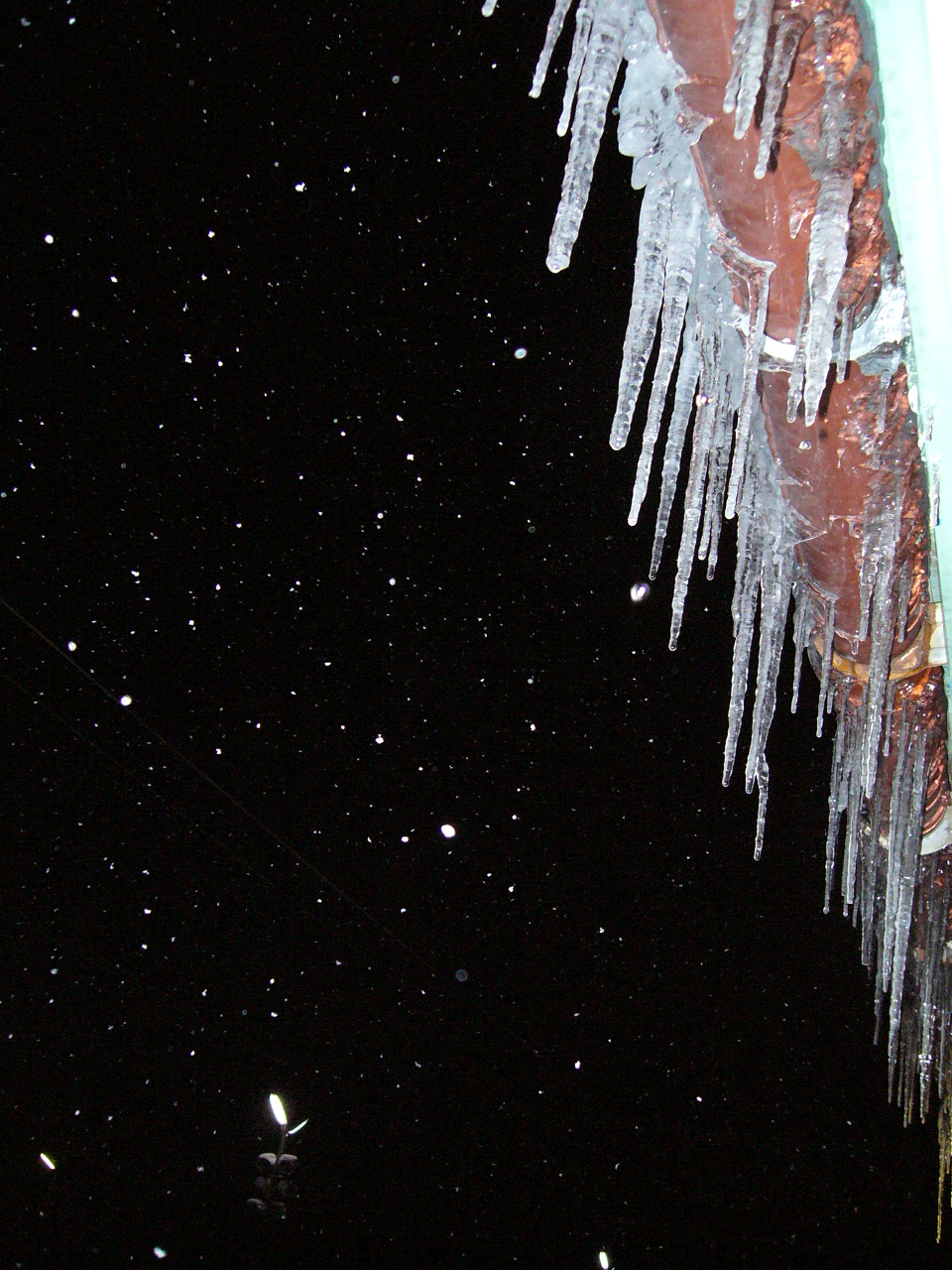 Icicles at Kanita Station, Aomori. Photographed by Bakkai in December 2005.Panasonic Lumix DMC-LS1